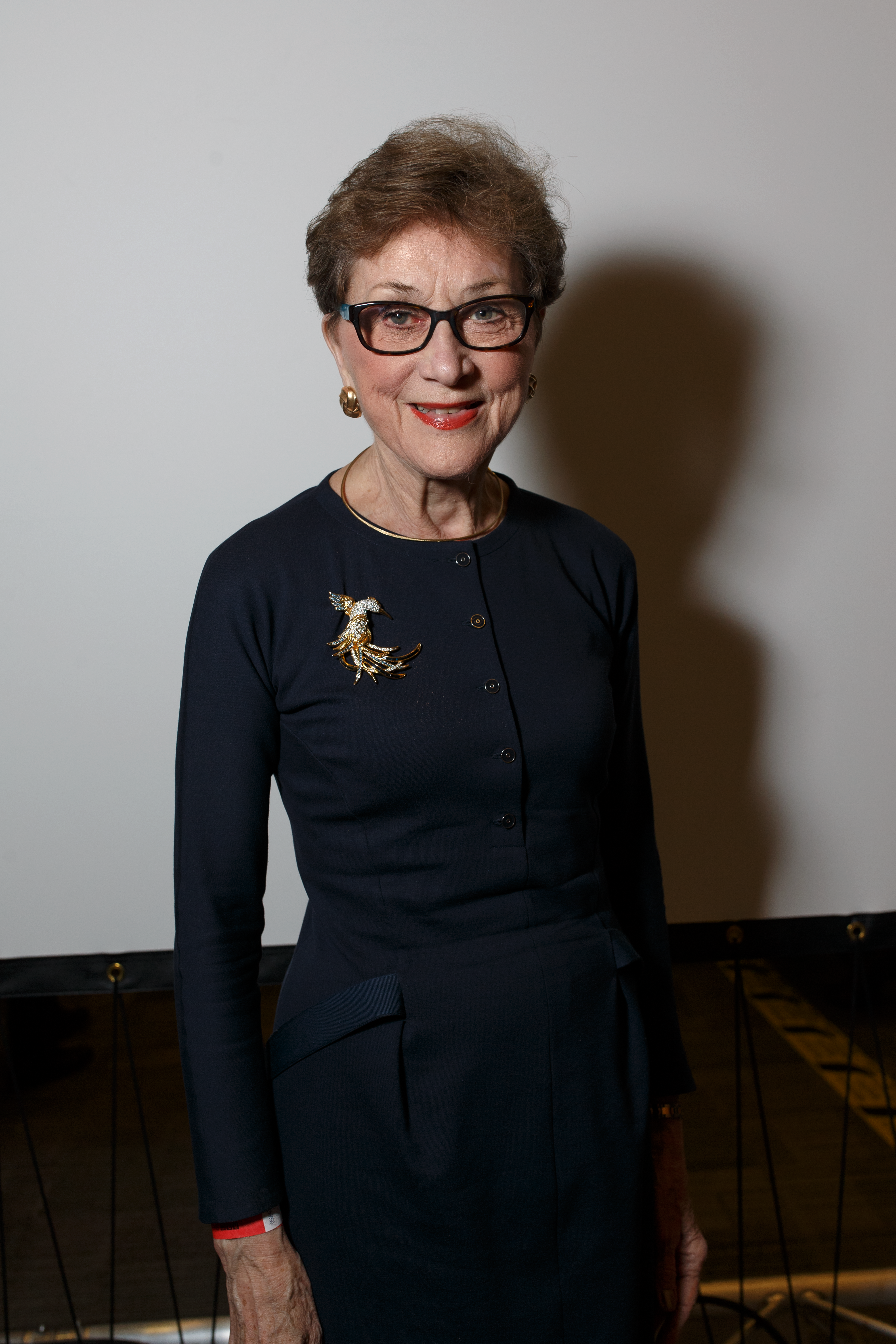 Carol M. Black, the Principal of Newnham College, Cambridge University, and a former government advisor, photographed in portrait at BBC 100 Women's Wikipedia editathon on 8 December 2016. The photograph was taken by Katy Blackwood as part of the event specifically in order to improve her Wikipedia page with a freely licensed photograph.